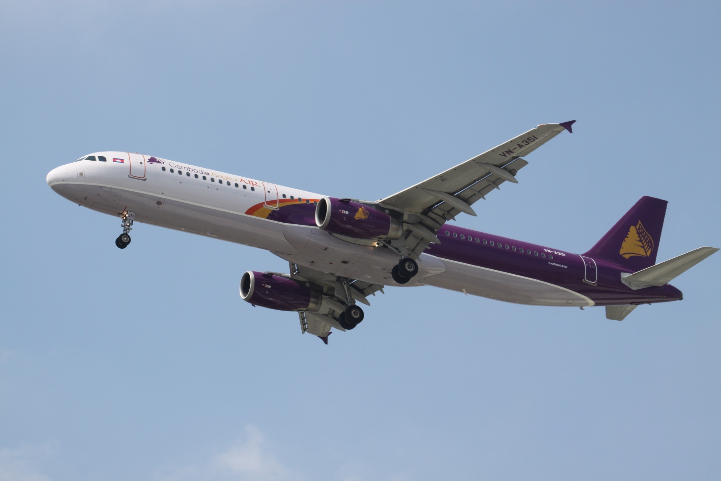 At Ho Chi Minh City Tan Son Nhat